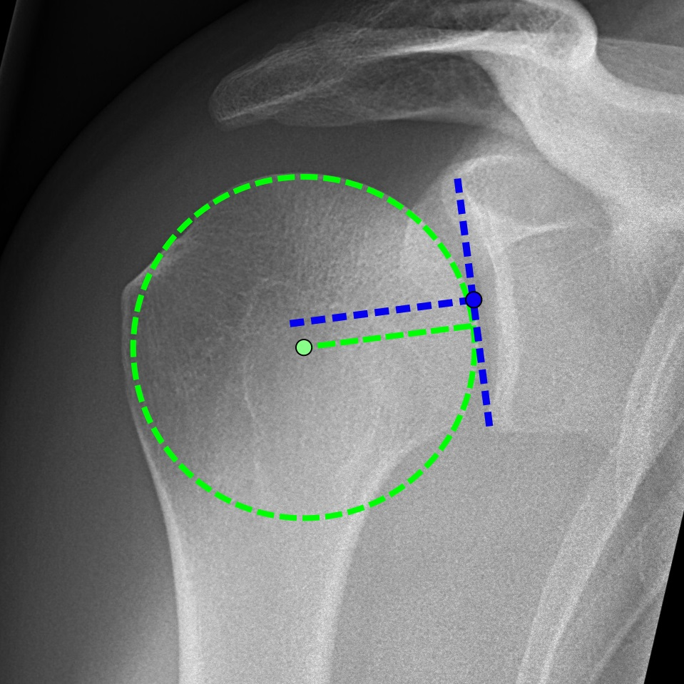 Normal position of the humeral head in relation to the glenoid in the shoulder joint.